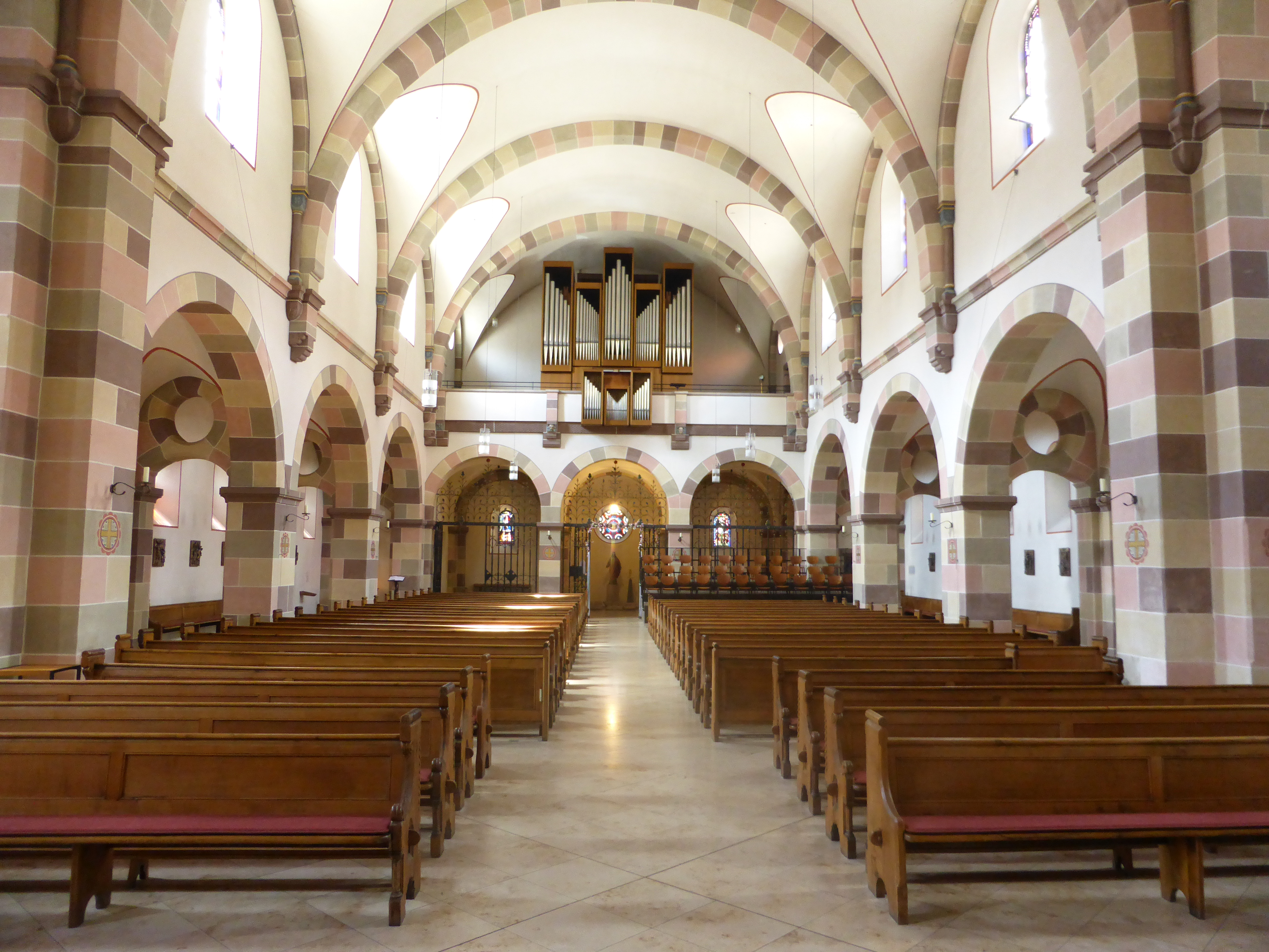 St. Marien church in Kassel, Germany